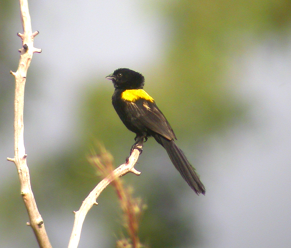 Yellow-mantled Widowbird, Ndassima, CAR